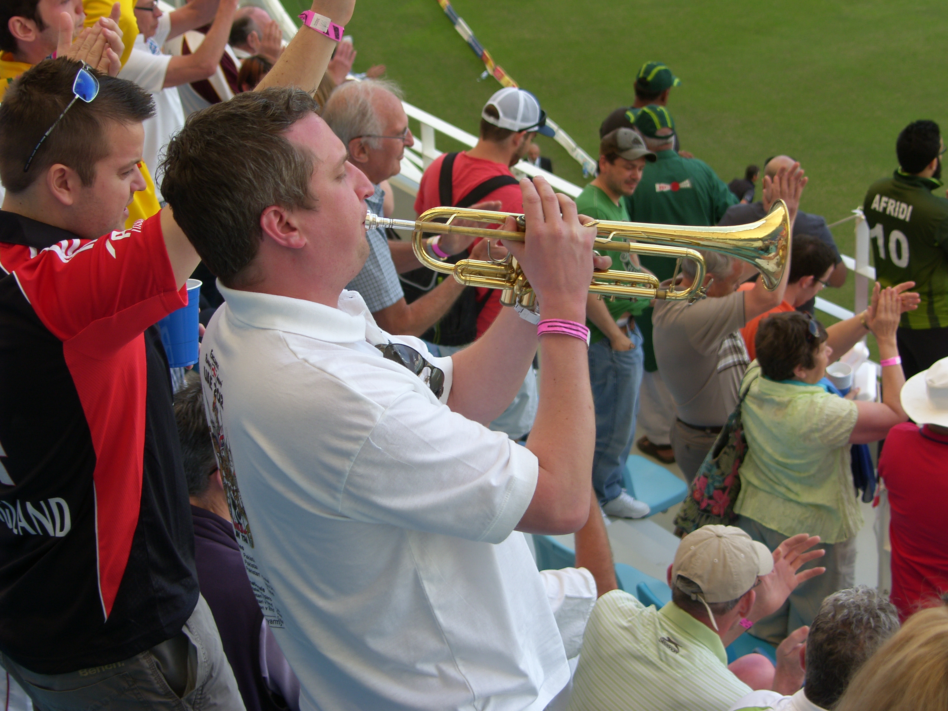 Billy Cooper the Barmy Army trumpeter in Dubai during Pakistan v England Test Match